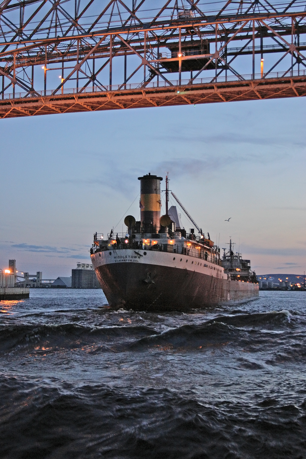 Middletown, Duluth, Minnesota, Lake Superior